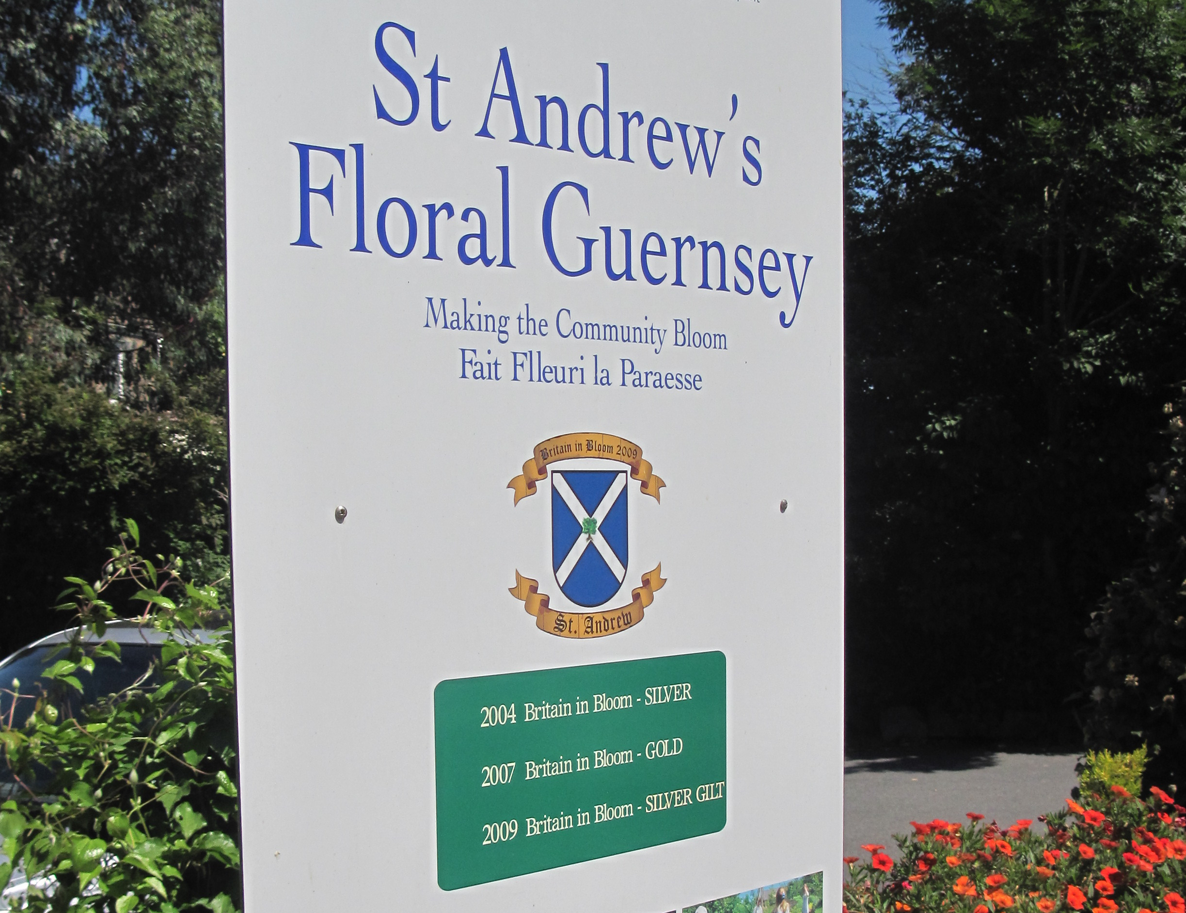 Guernsey, July 2011